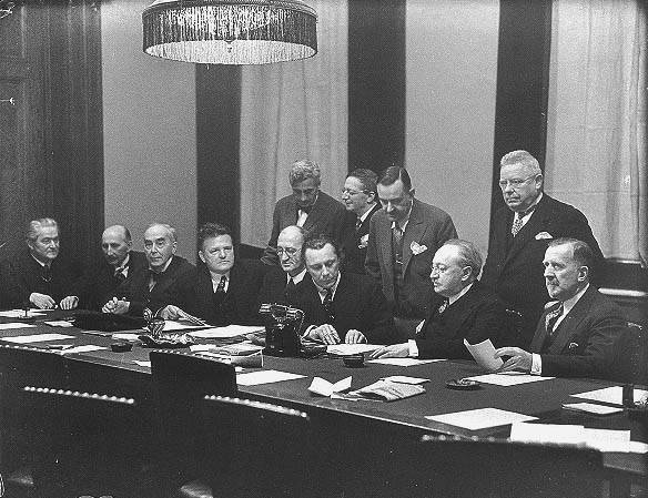 Front row, left to right: Hermann Stehr, Alfred Mombert, Eduard Stucken, Wilhelm von Scholz, Oskar Loerke, Walter von Molo, Ludwig Fulda, Heinrich Mann. Standing: Bernhard Kellermann, Alfred Döblin, Thomas Mann, Max Halbe.